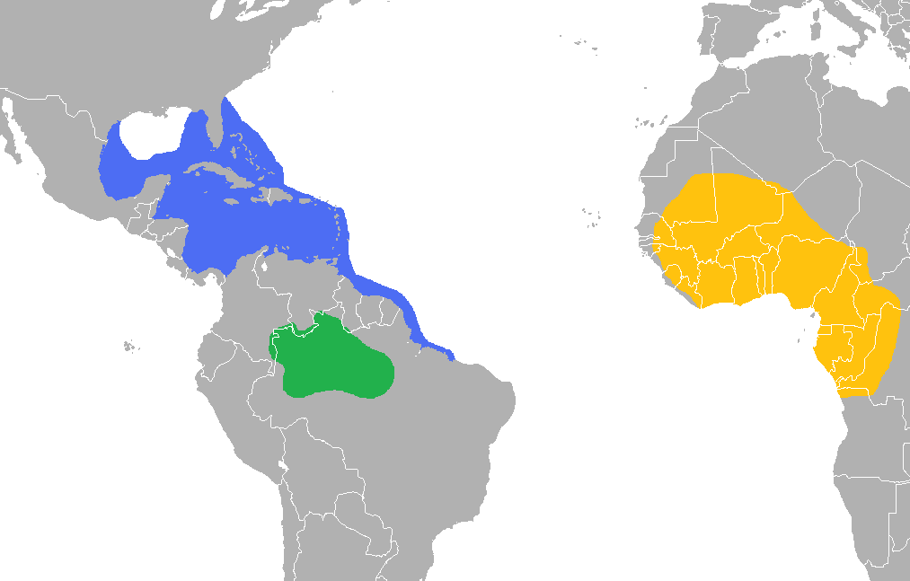 Distribution map of manaties. yellow = Trichechus senegalensis vert = Trichechus inunguis blue = Trichechus manatus